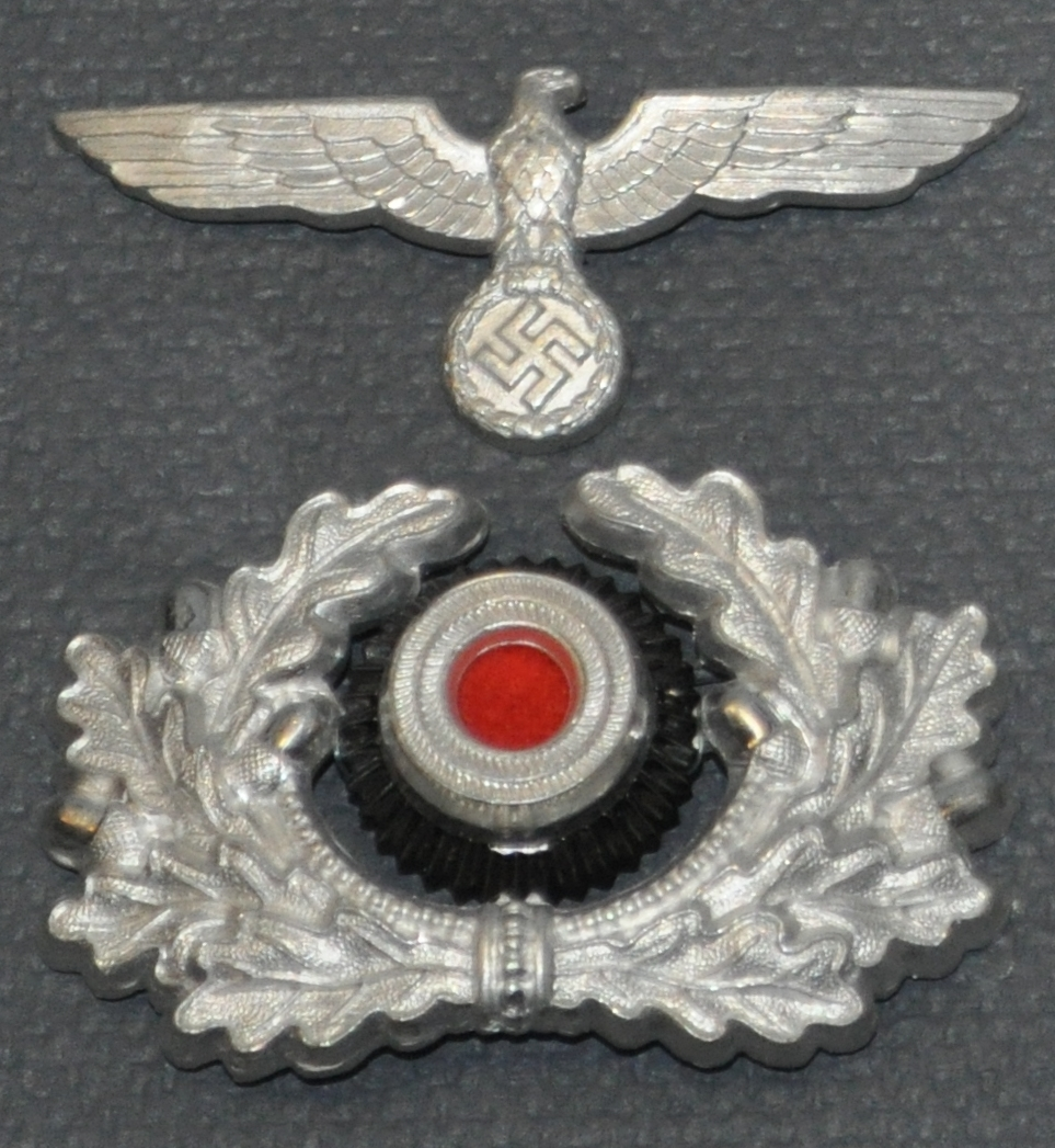 Military decorations of the Third Reich. Fort Lewis Military Museum, Fort Lewis, Washington, USA. 14. Army cap insignia.